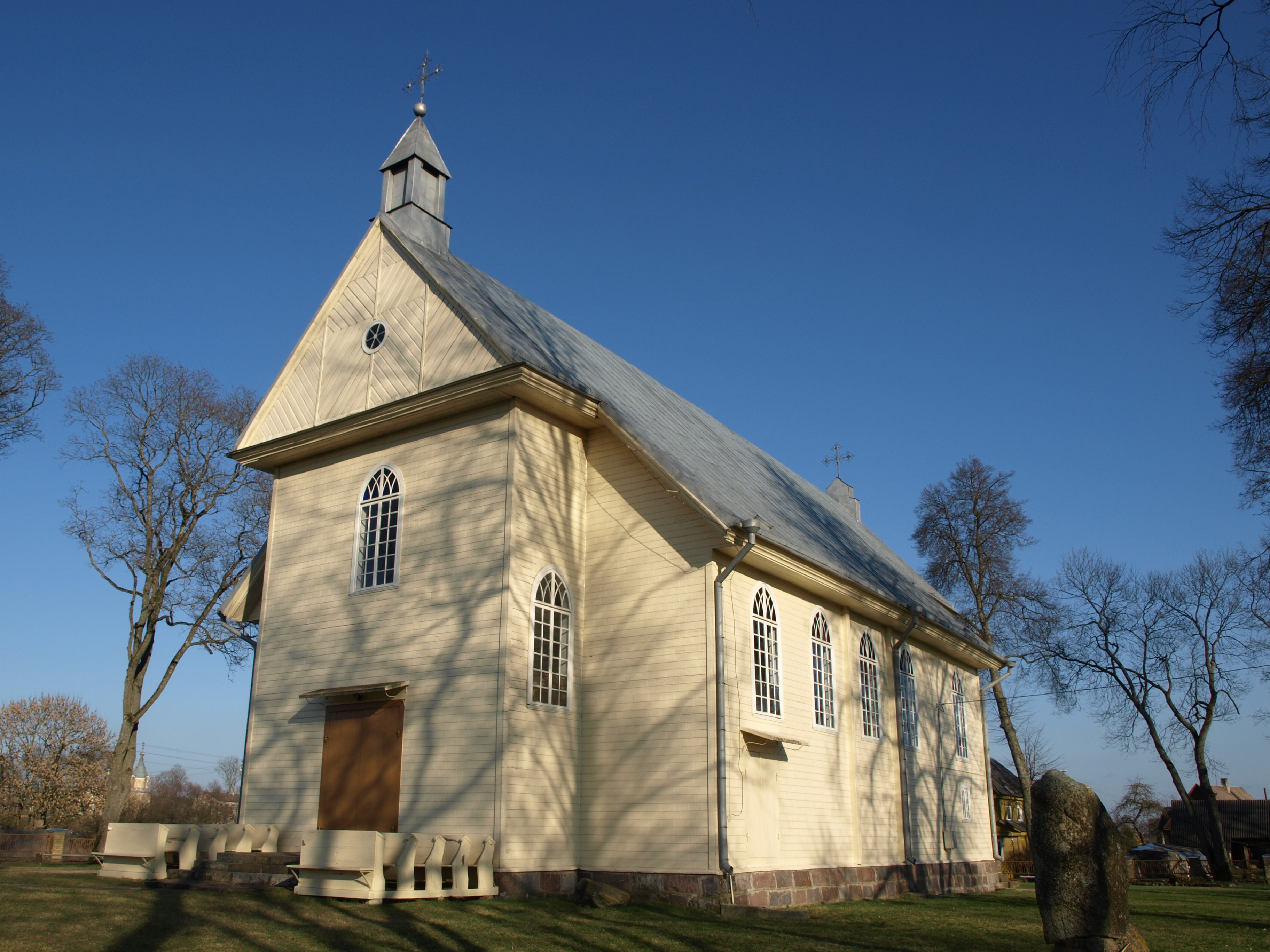 Semeliškės church, Elektrėnai district, Lithuania